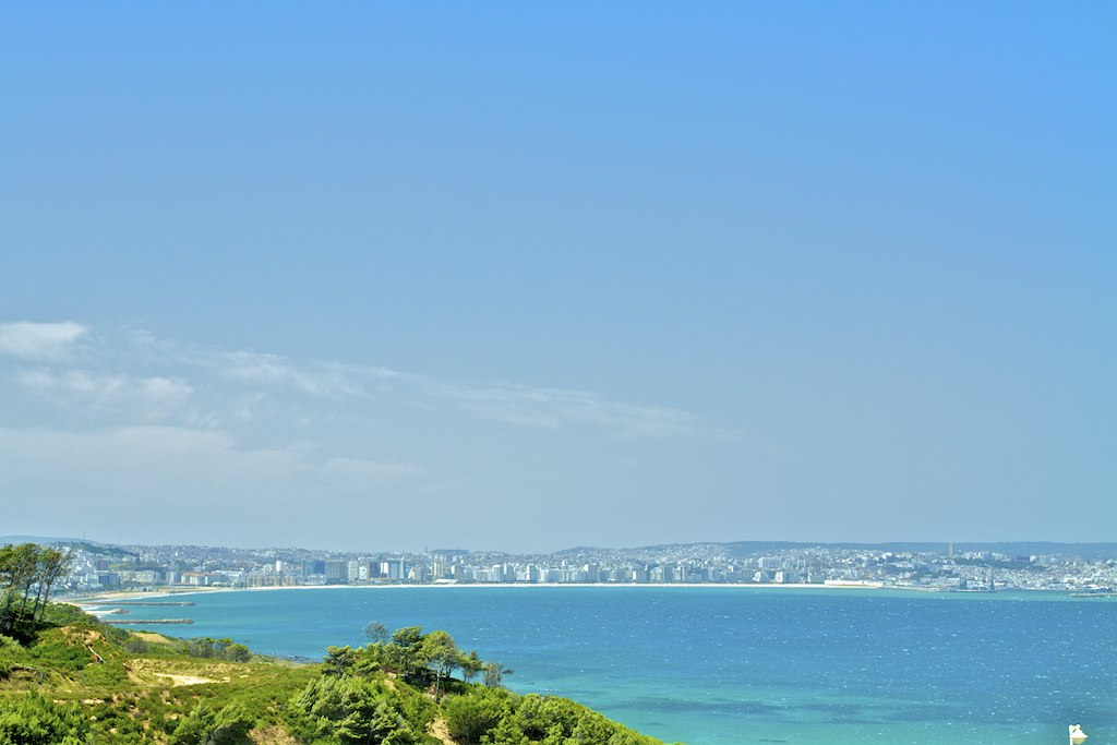 3Jun 2011 Cape Malabata (or Punta Malabata) is a cape located at 6 miles east of Tangier, Morocco facing the Strait of Gibraltar.[1] The cape features a lighthouse and a medieval looking castle built in early 20th century. Cape Malabata Tanger Morocco For more info